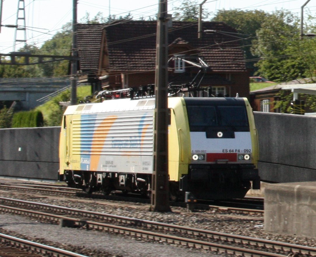 Locomotive Siemens ES64 F4-92, registered E189-992 with "European Bulls" logo Cut from Rotkreuz_E_189_ES_64_F4_European_Bulls_3470.JPG by User:Lord Koxinga